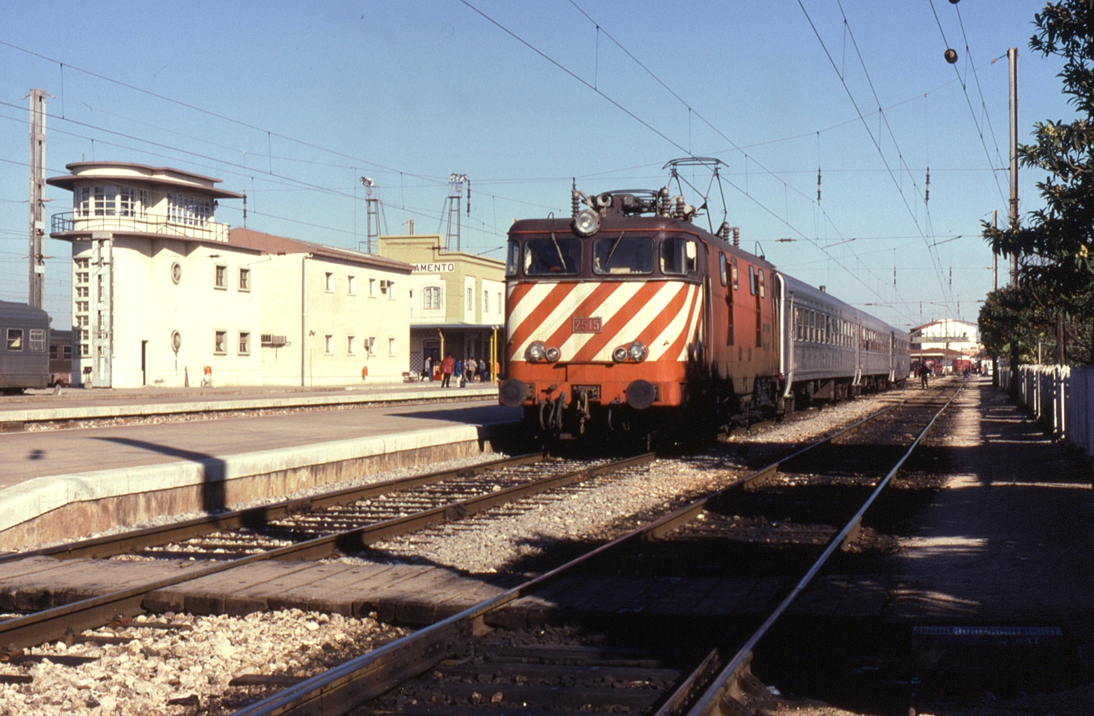 Class 2500 electric no. 2515 at Entroncamento, 1 December 1990 having arrived in on train 2620, 06:20 Guarda to Lisboa Santa Apolónia.